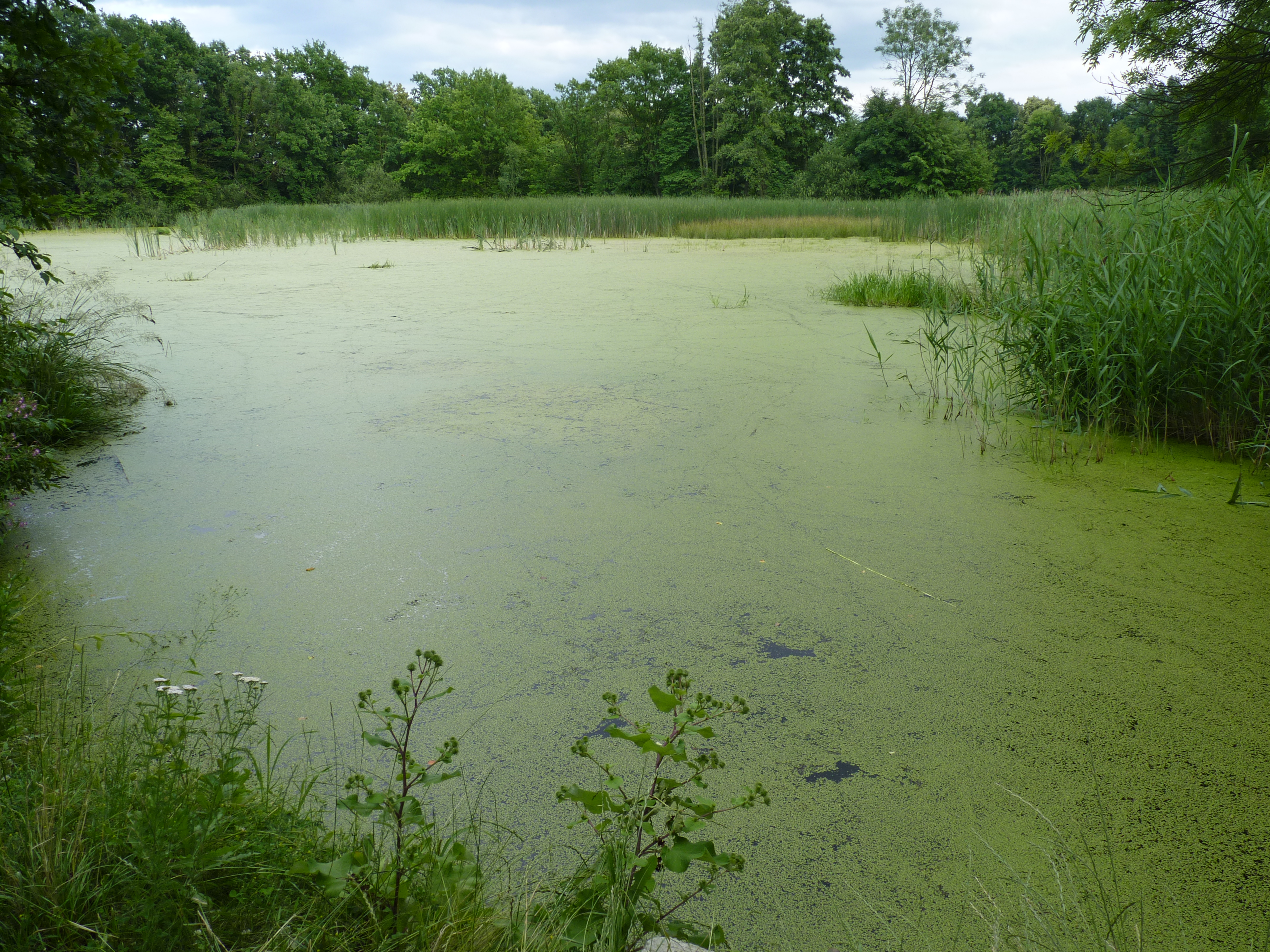 National nature reserve Polanská niva. Ostrava-city District, Moravian-Silesian Region, Czech Republic